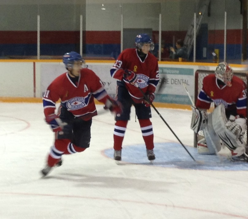 These images of GLJHL action are taken by Devan Mighton.